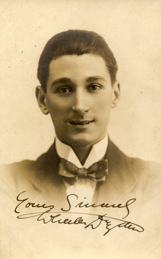 Wheeler Dryden Postcard Photo